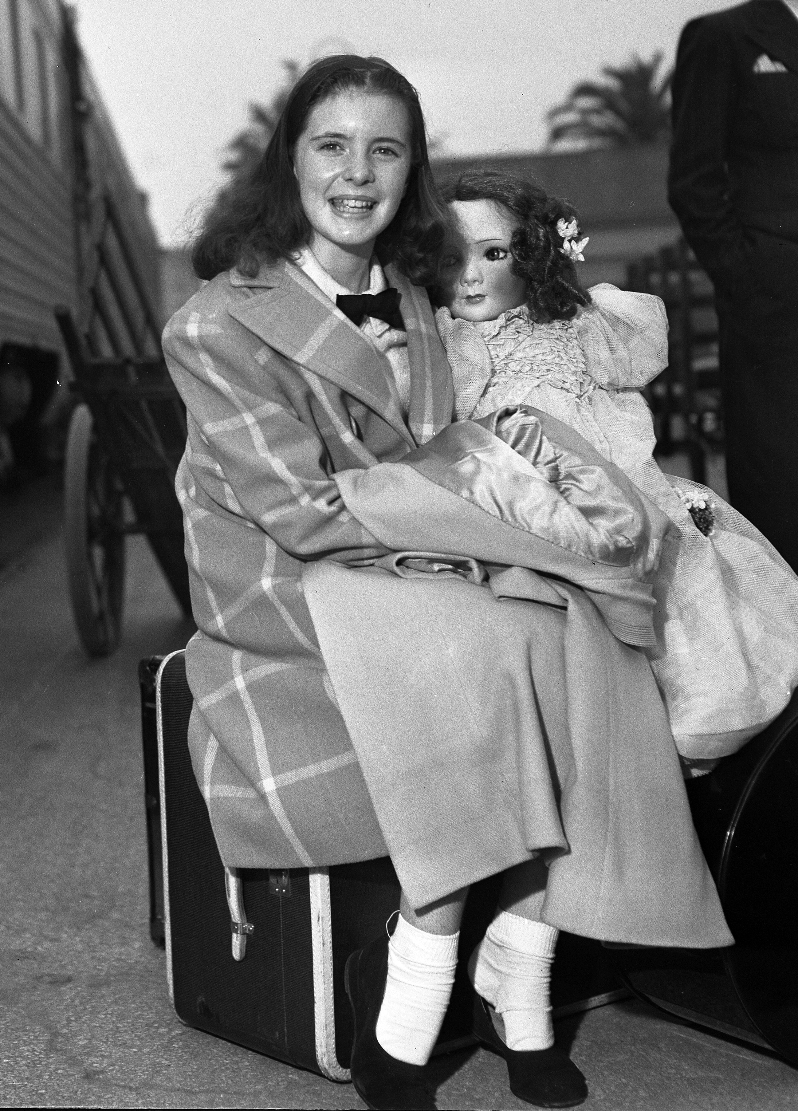 Title: 11 year-old actress Margaret O'Brien seated on suitcase holding a doll at Los Angeles Union Station, 1948. Published caption:HOME AGAIN-- Margaret O'Brien, 11-year-old film star, returns to Southland from 22 days of travel abroad. She holds a doll which was given her on visit to Paris. Publication:Los Angeles Times. Category:Images of Americans